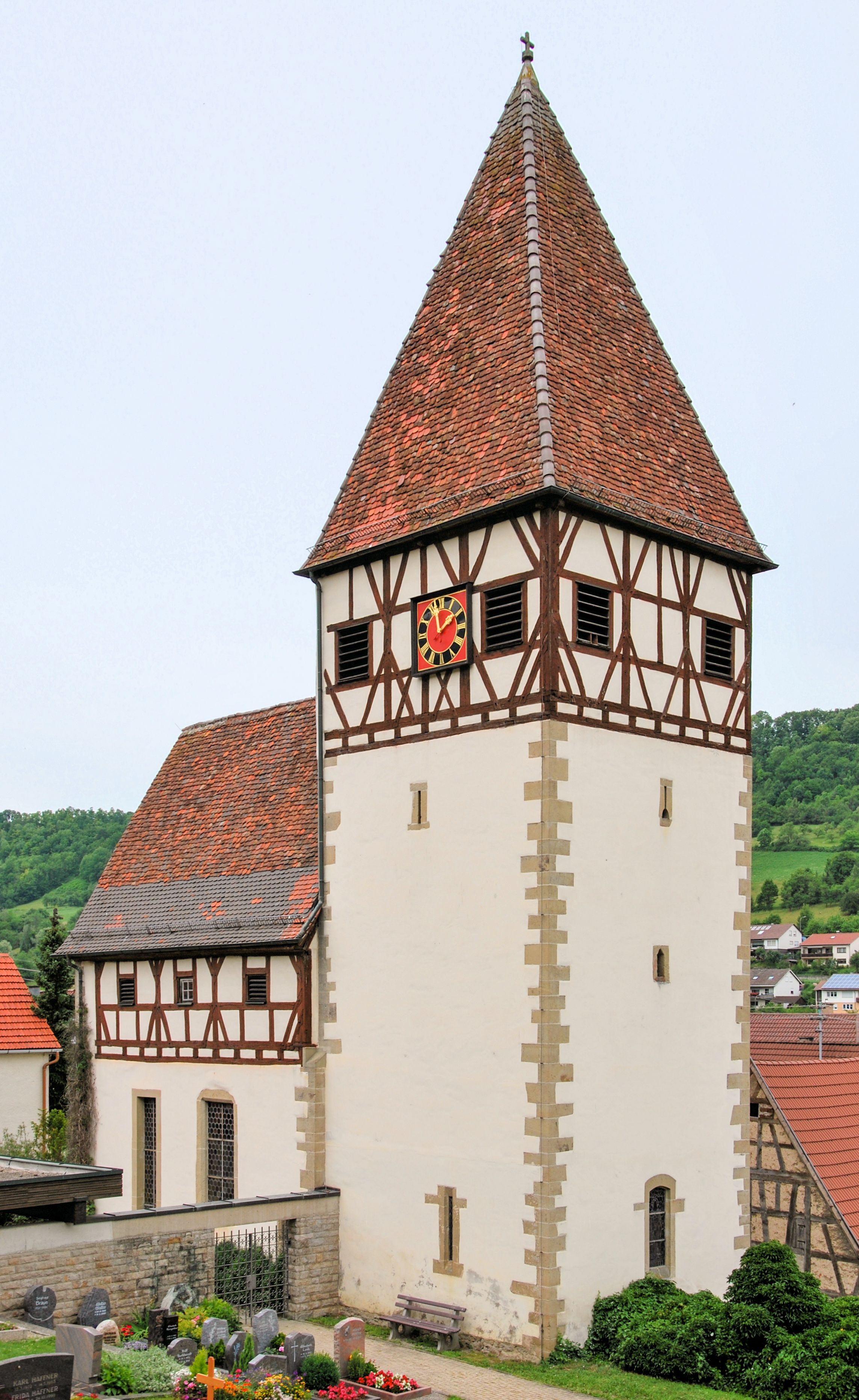 Protestant fortified church Saints Alban and Wendelin in Künzelsau-Morsbach, Germany as seen from south east.